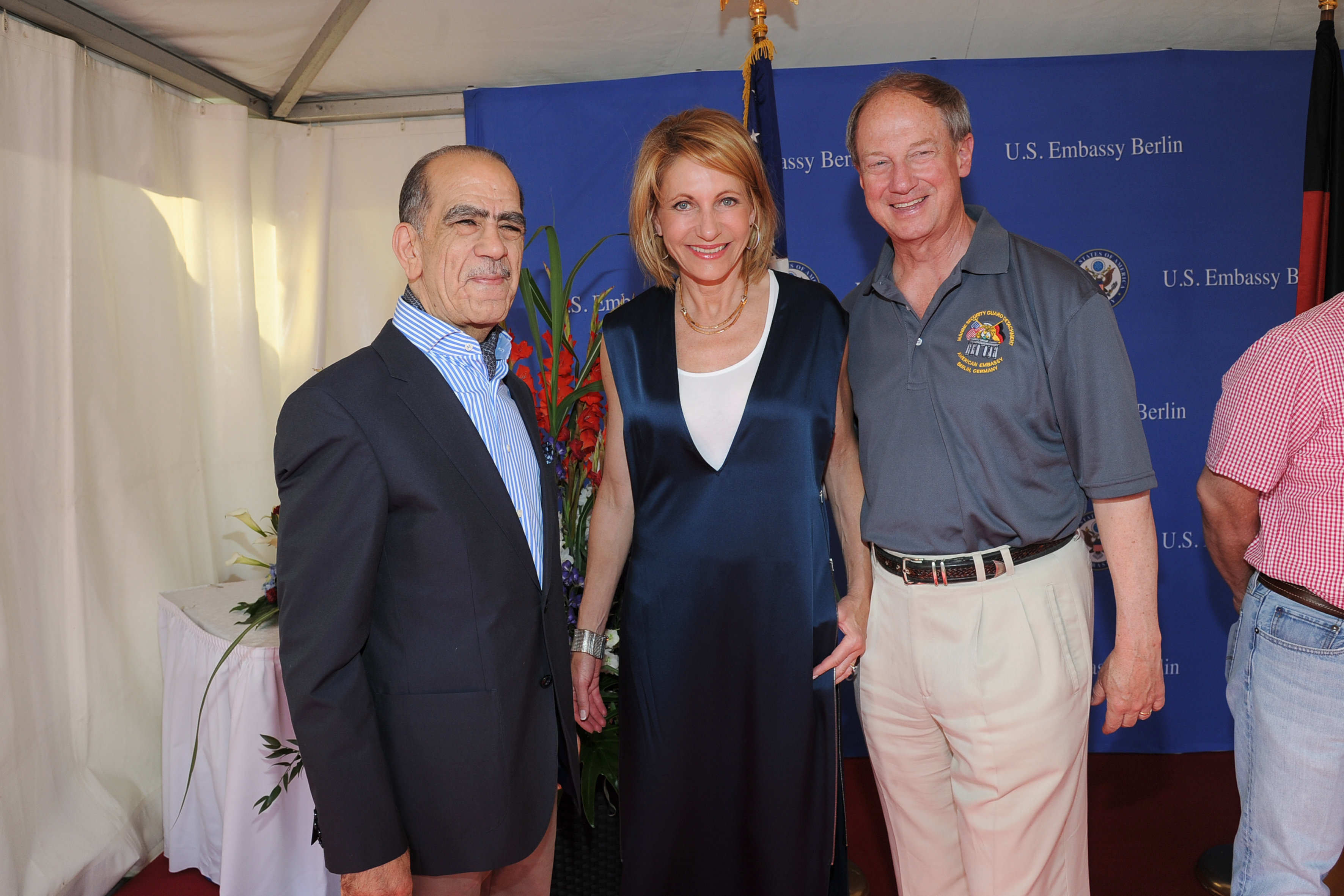 L to R: Mazen Izzeddin Abdalla Tal, Kimberly Emerson, and John B. Emerson, Independence Day in Berlin, July 1, 2016